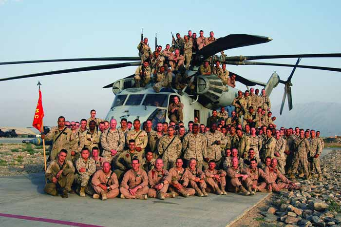 HMH-769 Squadron Photo for MCAA Marine Corps Heavy Helicopter Squadron of the Year 2005.